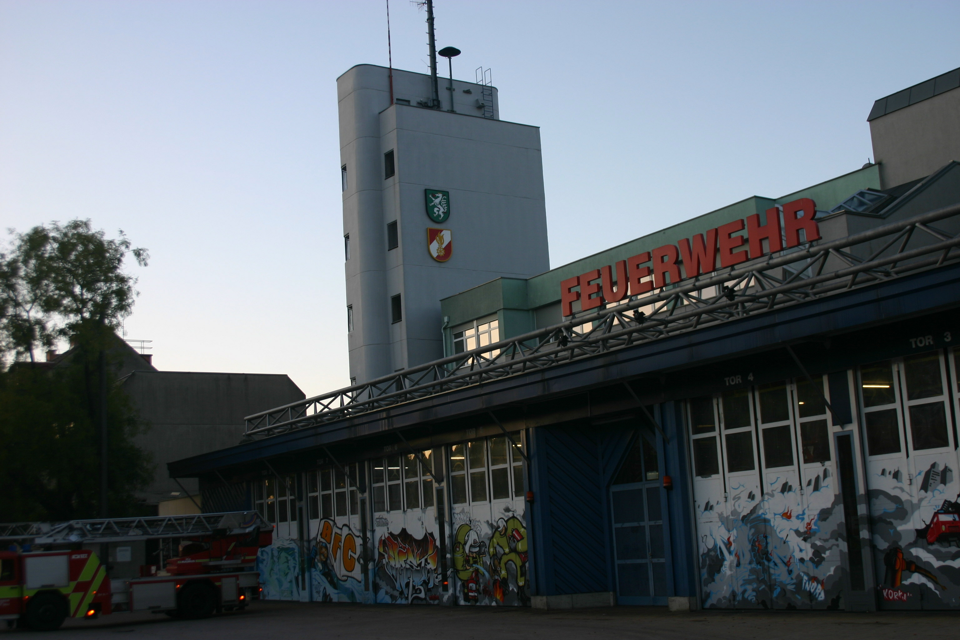 Central fire station of the career fire brigade of Graz on the Lendplatz